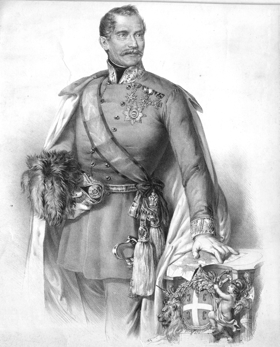 Stevan Šupljikac